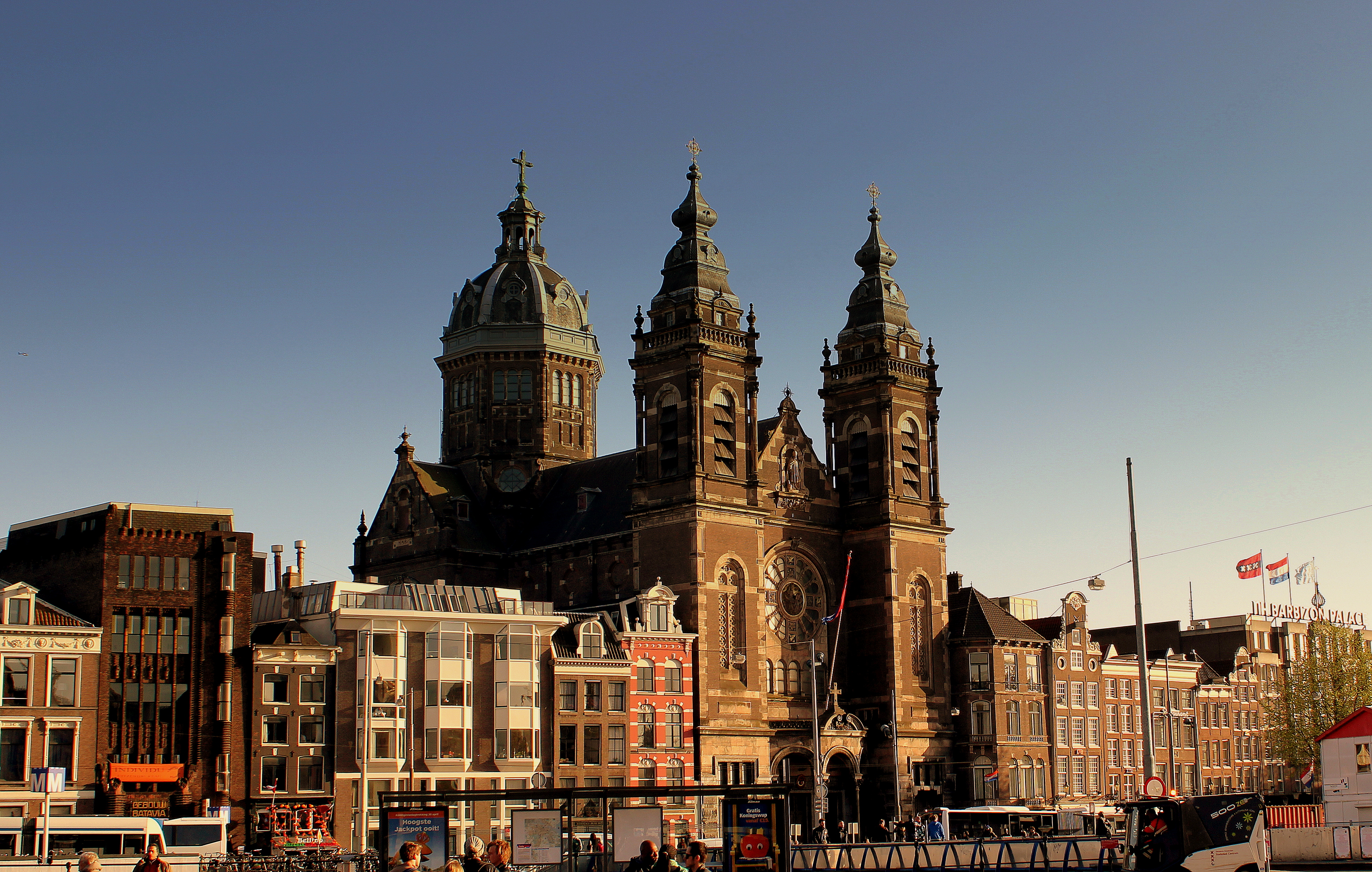 AMSTERDAM HOLLAND APRIL 2013